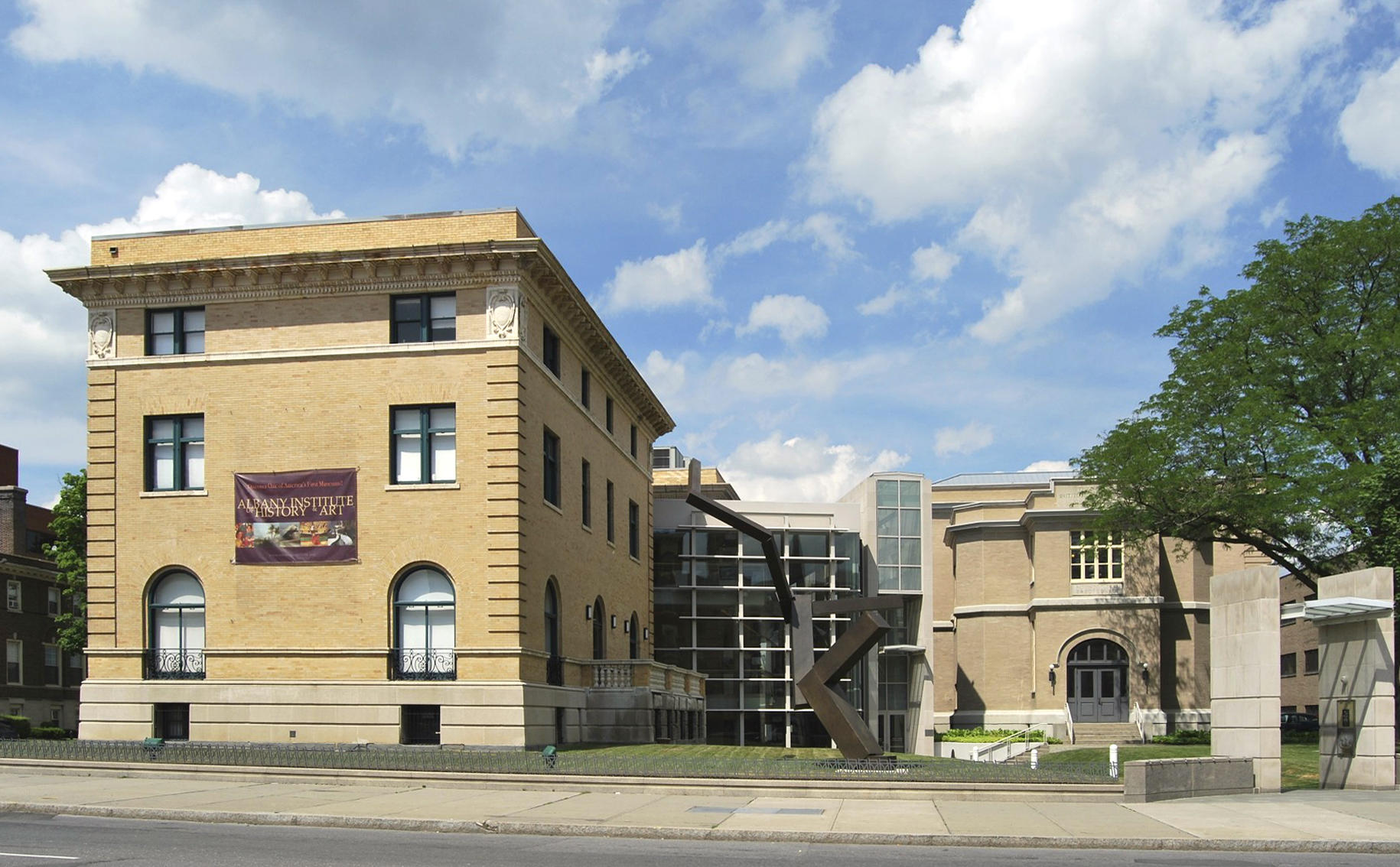 Albany Institute of History and Art in Albany, New York, United States